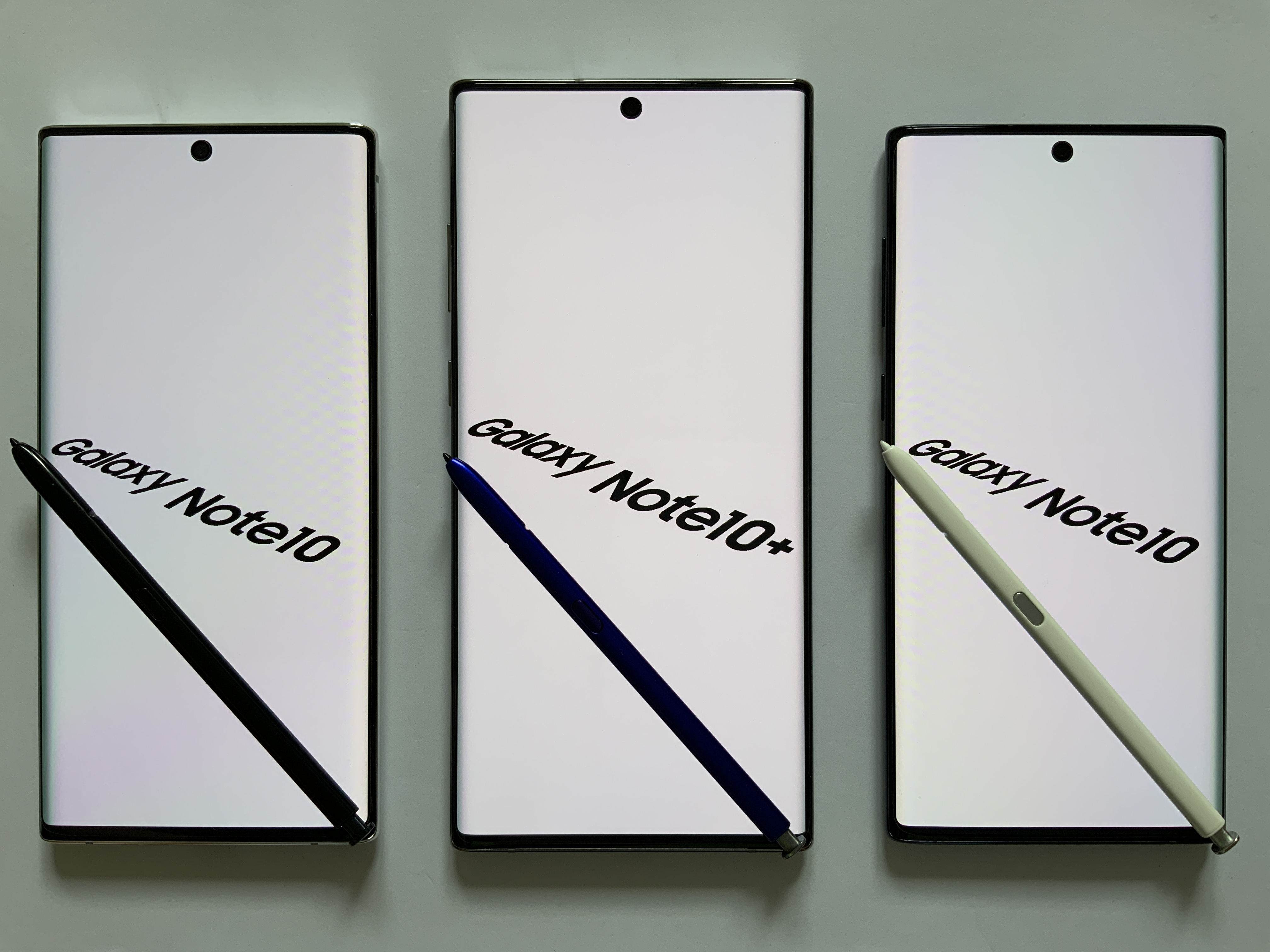 SAMSUNG Galaxy Note10 SAMSUNG Galaxy Note10 5G SAMSUNG Galaxy Note10+ SAMSUNG Galaxy Note10+ 5G